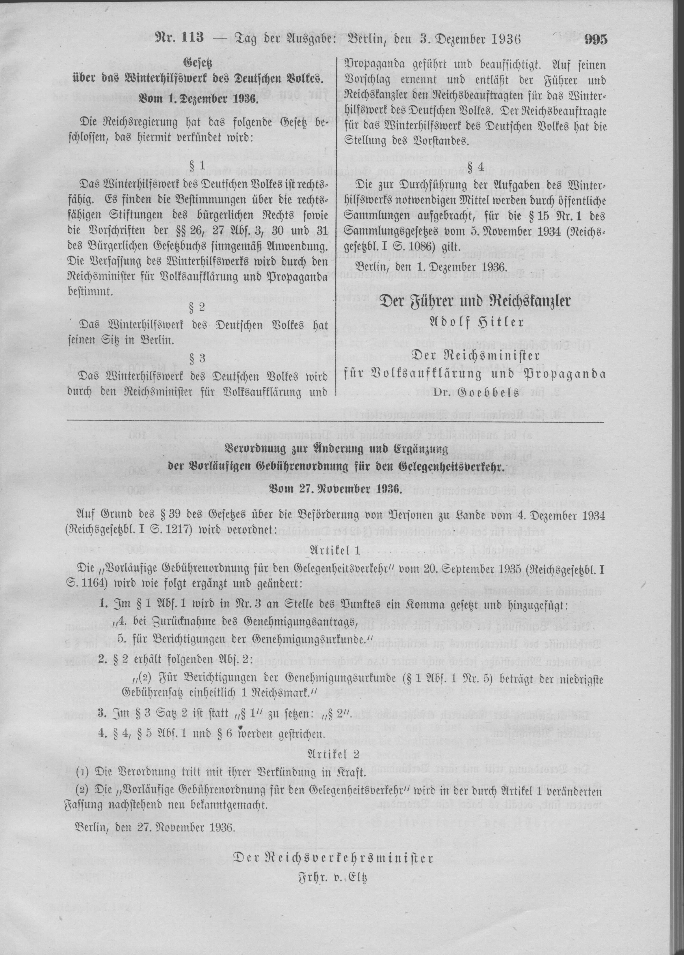 Scan from the Imperial Law Gazette of Germany, 1936, part 1